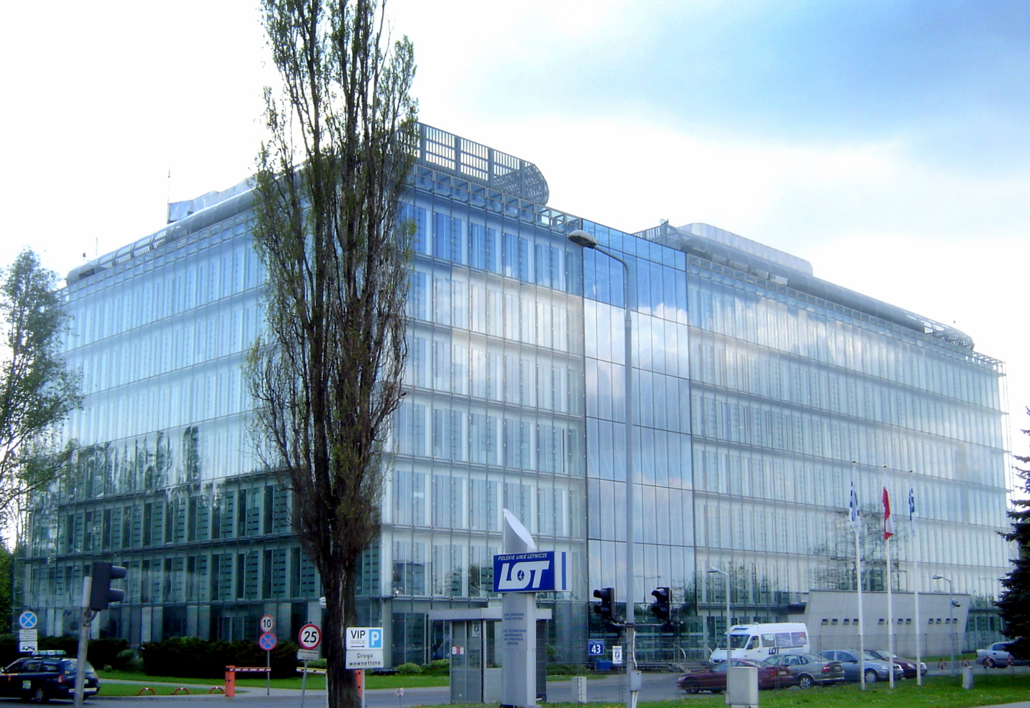 Head office of LOT Polish Airlines and EuroLOT; 43, 17 Stycznia Street, Warsaw